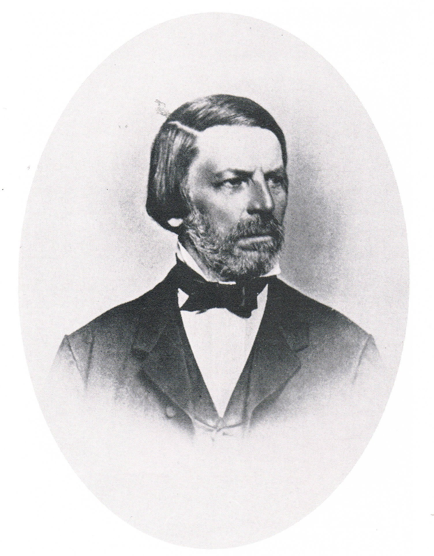 Franz Schott (1811-1874), Mayor of Mainz, music publisher